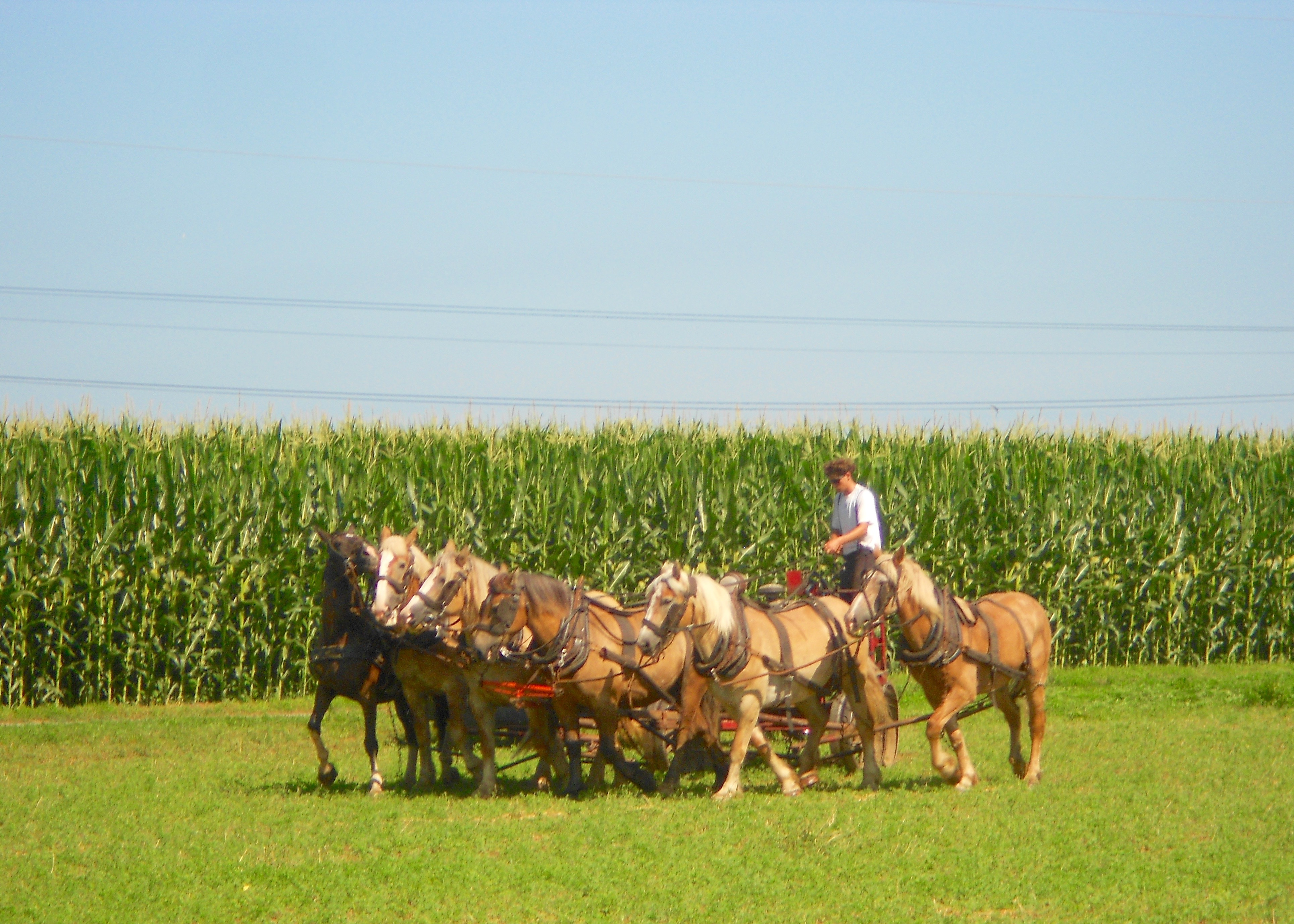 A six-horse team mowing hay in East Lampeter Township, Lancaster County, Pennsylvania